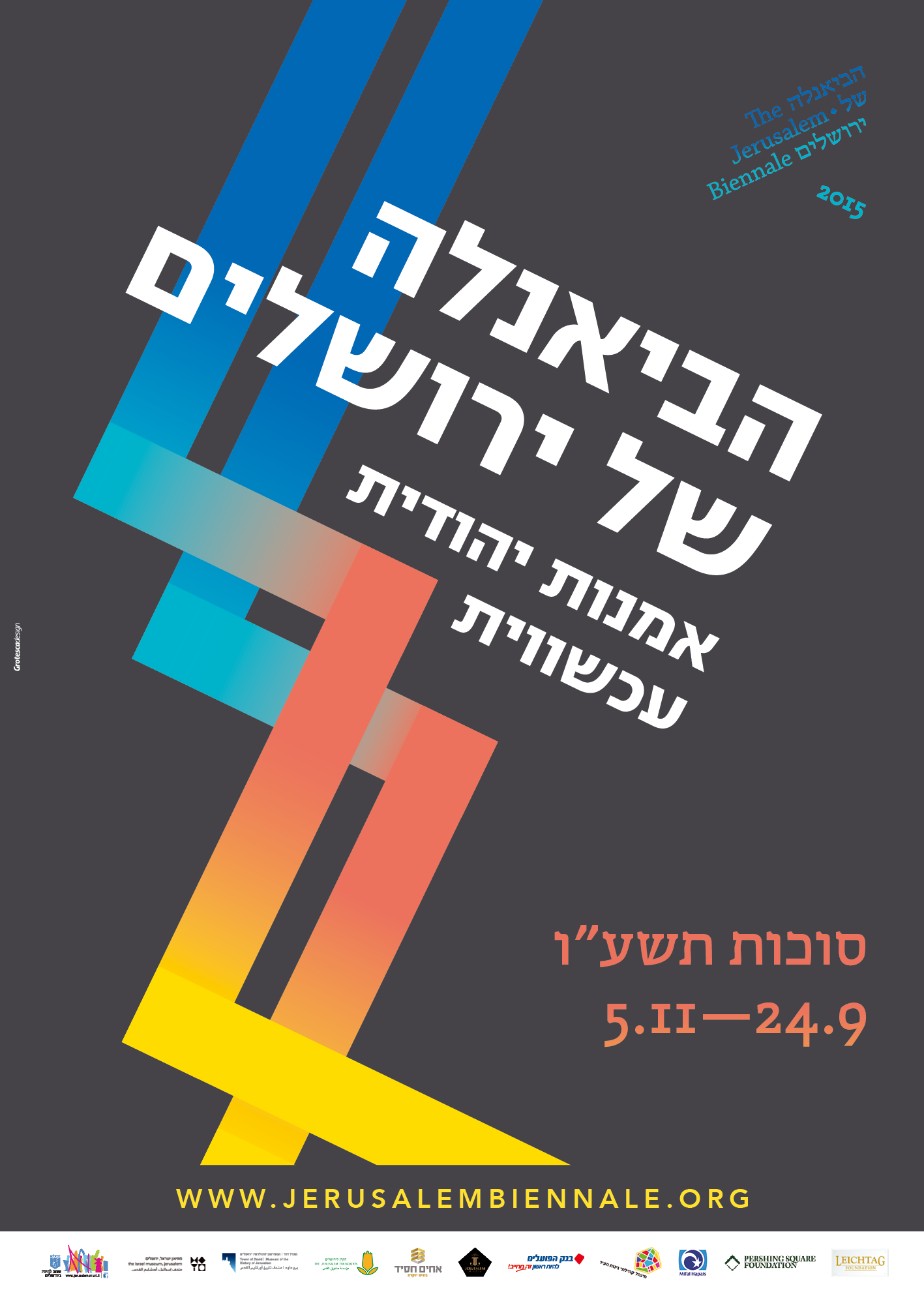 The poster for the second Jerusalem Biennale in 2015, created by Grotesca Design for the Jerusalem Biennale.